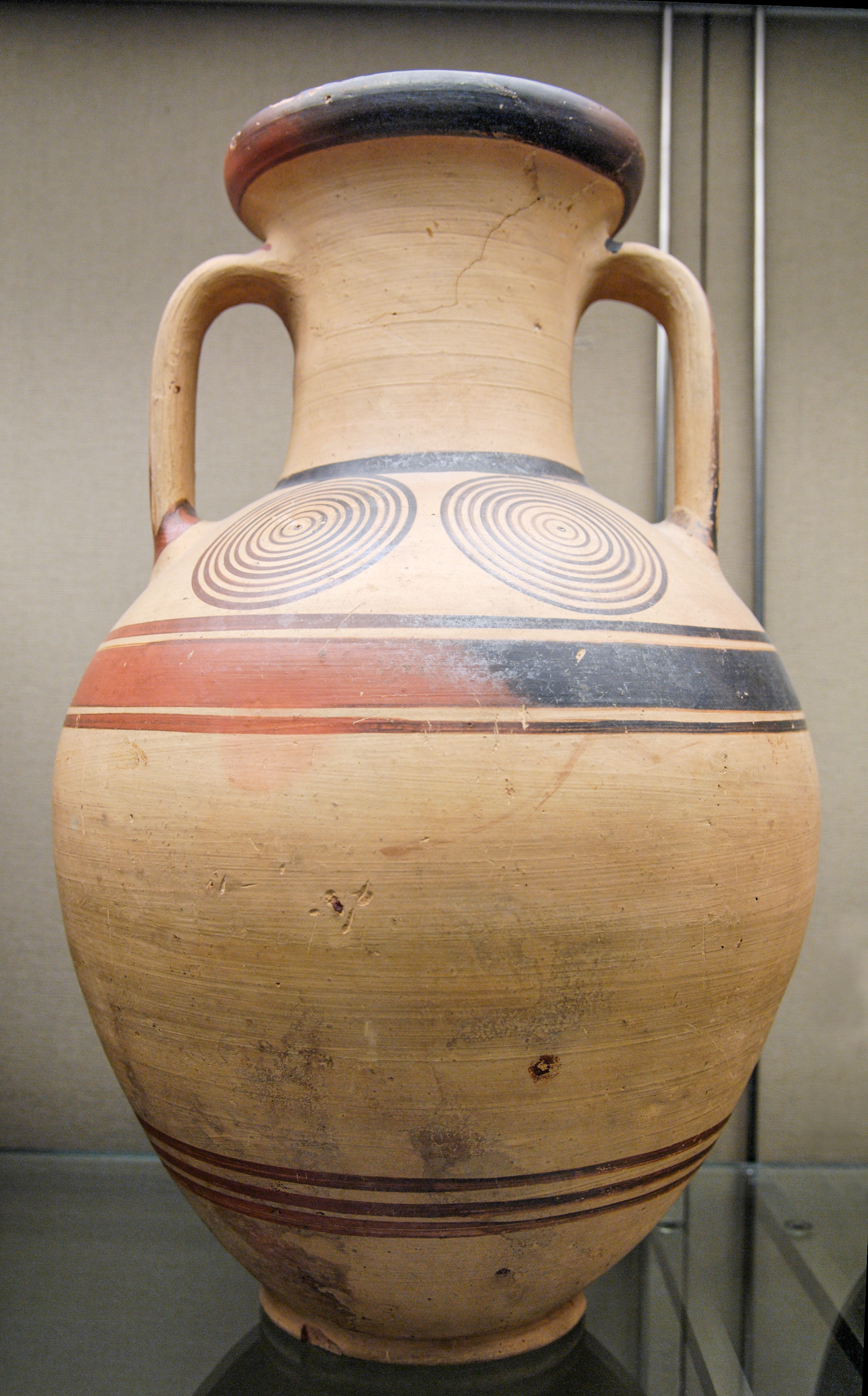 Protogeometric amphora with two sets of concentric circles on the shoulder. Made in Athens, probably from Athens.